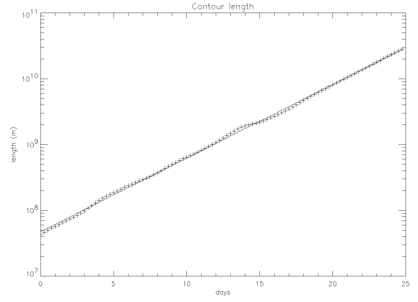 Growth of an advected contour. Reference: Peter Mills (2004) "Following the Vapour Trail: a Study of Chaotic Mixing of Water Vapour in the Upper Troposphere." Master's Thesis, University of Bremen; Peter Mills (2003) "Contour advection as a model for mixing in the atmosphere: a proposal." (unpublished manuscript).